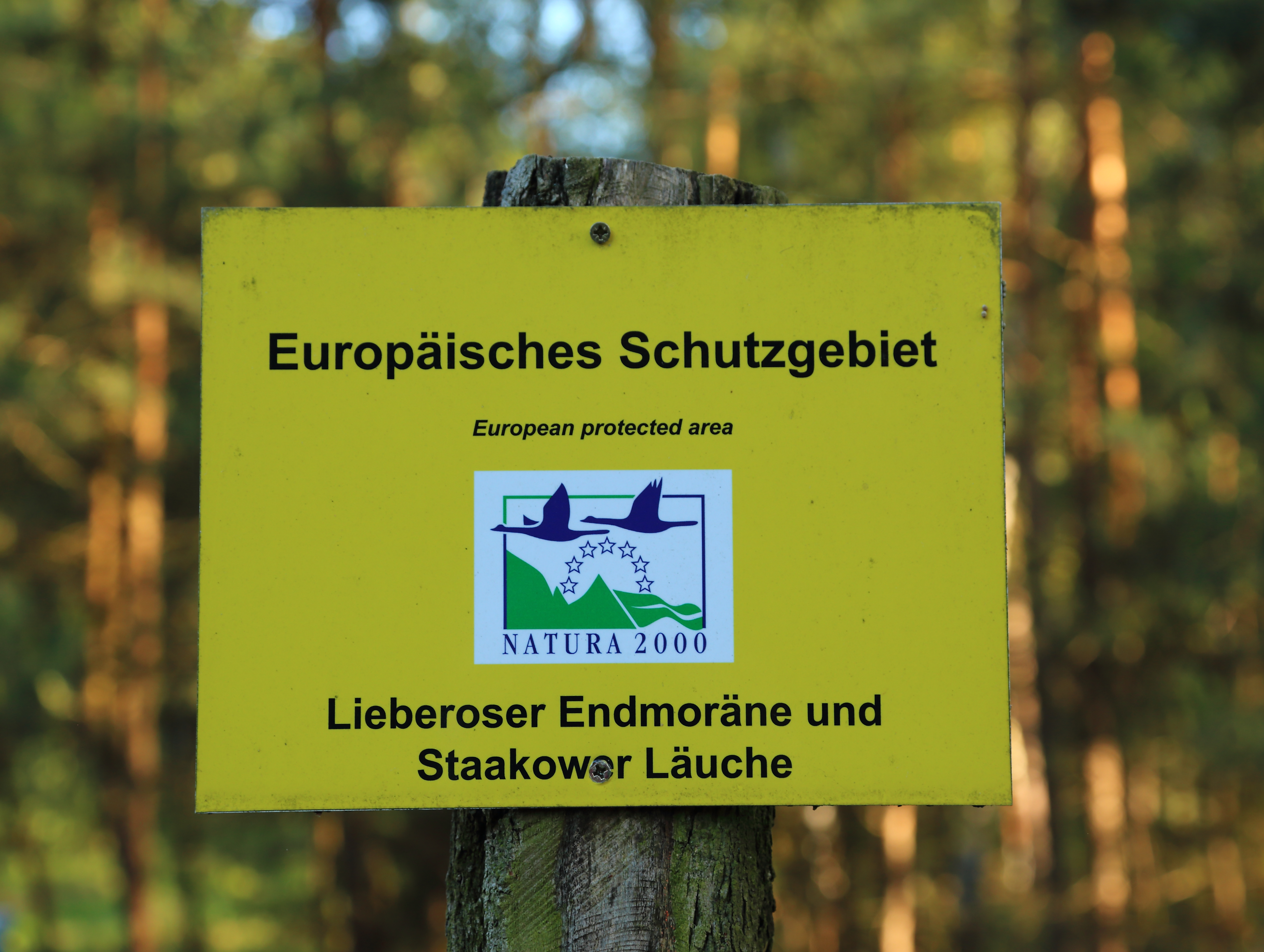 European protected area (Natura 2000) „Lieberoser Endmoräne und Staakower Läuche“ sign in the Lieberoser Heide, Brandenburg, Germany.